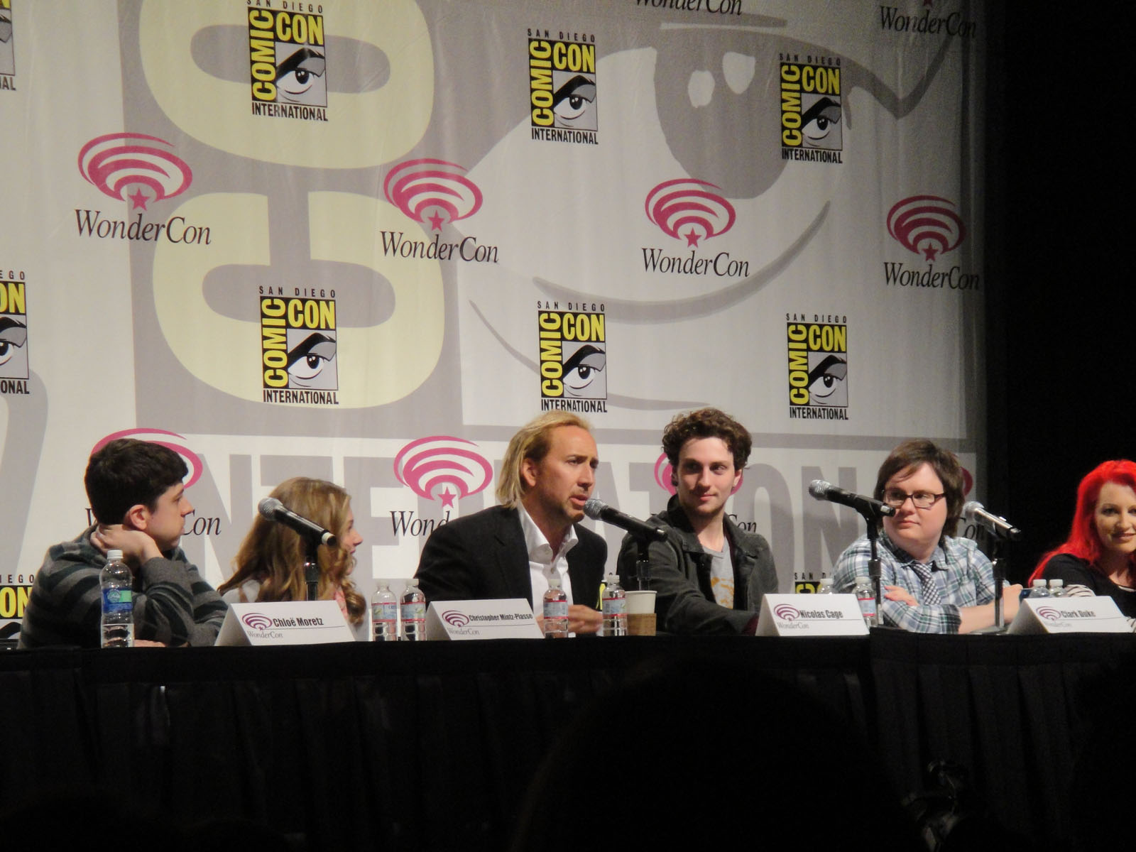 Kick-Ass Panel Actors at the WonderCon 2010.